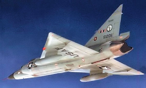 F-102 of the 111th Fighter-Interceptor Squadron, Texas Air National Guard